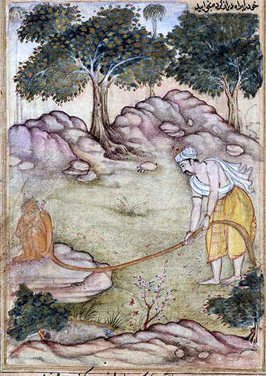 Item Info Free Library of Philadelphia Item No: mcom00201 Title: Bhima Tries to Lift Hanuman's Tail Additional Title: Razmnama (Book of War) Media Type: Manuscripts Source: Rare Book Department Notes: At one point during the Pandavas’ twelve-year exile, Bhima, the strongest of the five brothers, came upon a weak, ill monkey who blocked his path. The monkey entreated Bhima to lift his long tail. Try as he might, powerful Bhima was unable to accomplish this simple task and so realized that he was in the presence of a superior being, the great monkey god Hanuman in disguise. Although this rather spare painting looks simple, the artist used the nim qalam (literally, “half pen”) wash technique that required great skill as it left little room for error. Region/County: Region/County:Northern India, Mughal court Creation Year (Single Year or Range Begin): 1599 Call Number: Lewis M20 Creator Name: Asa - Artist Subjects : Akbar